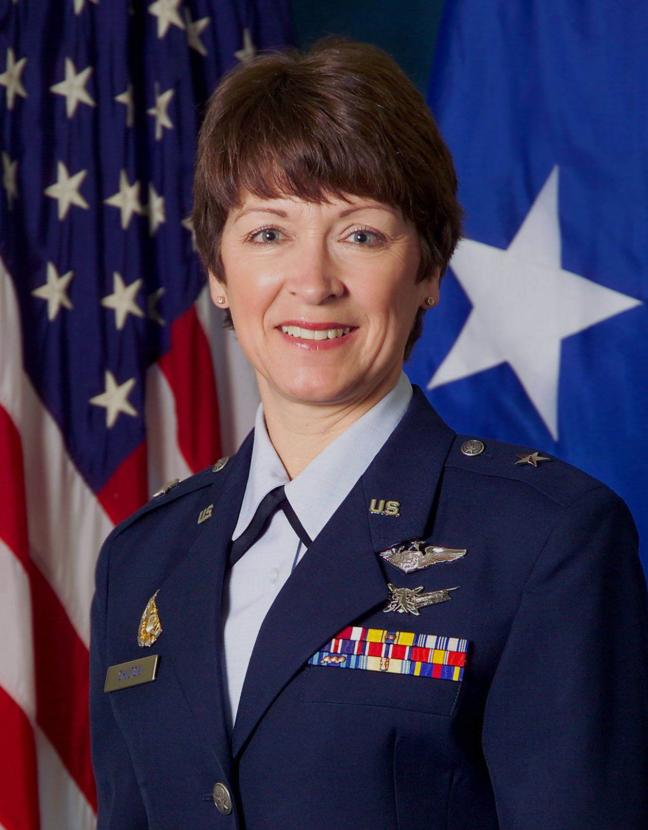 Brigadier General Catherine A. Chilton